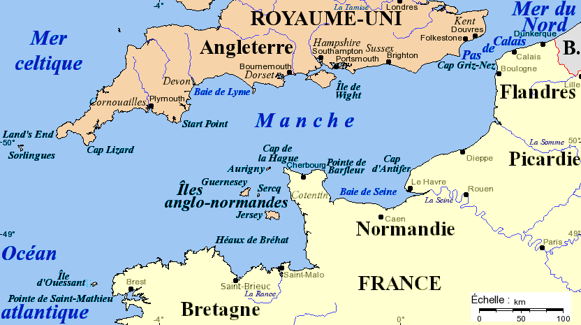 Channel map with main capes, islands and cities. Projection of Mercator, data as of 2005. Map background from [ (defunct).